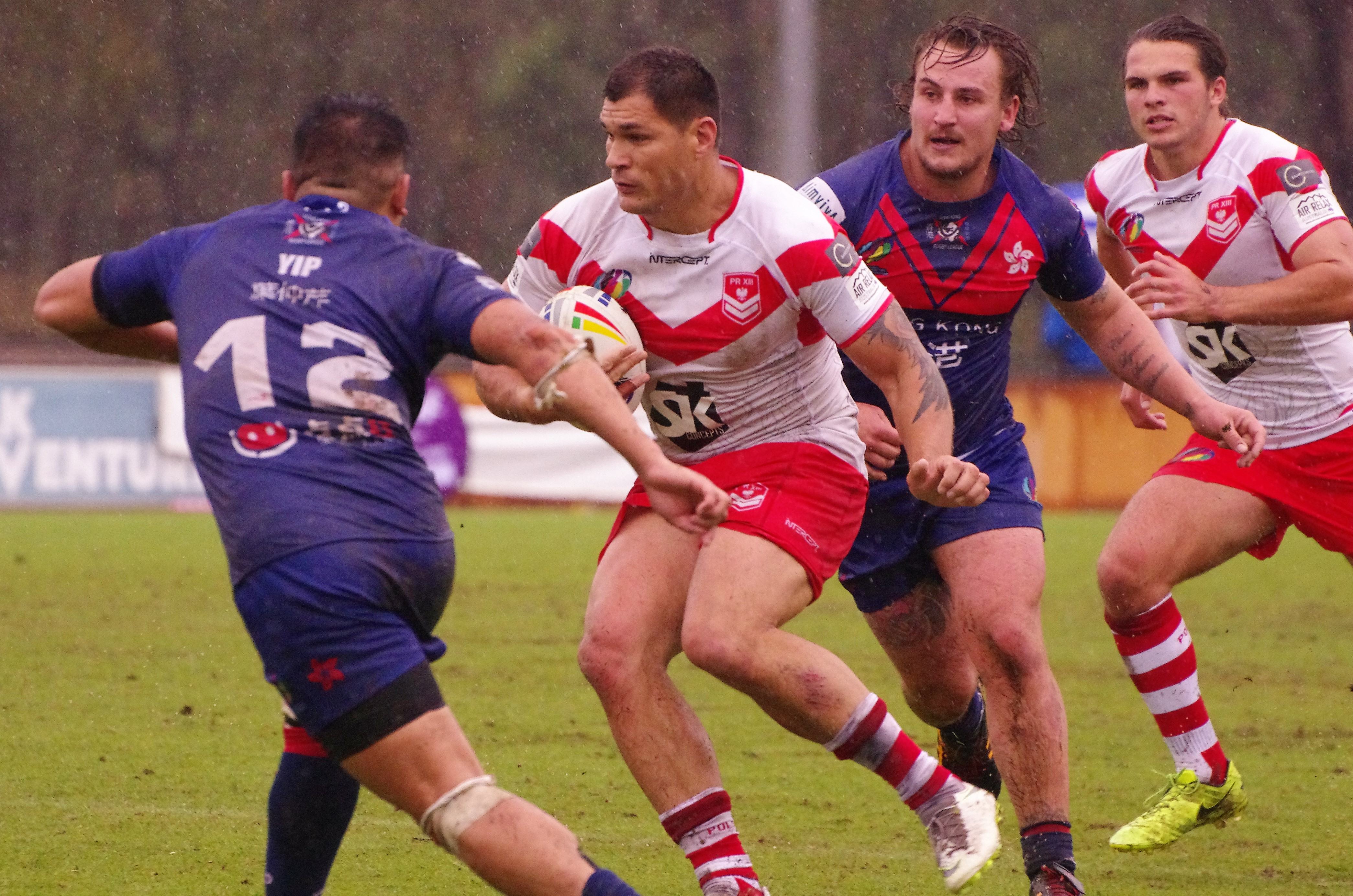 Poland v Hong Kong international rugby league game during Emerging Nations World Cup 2018 in Sydney's suburb of St Marys.